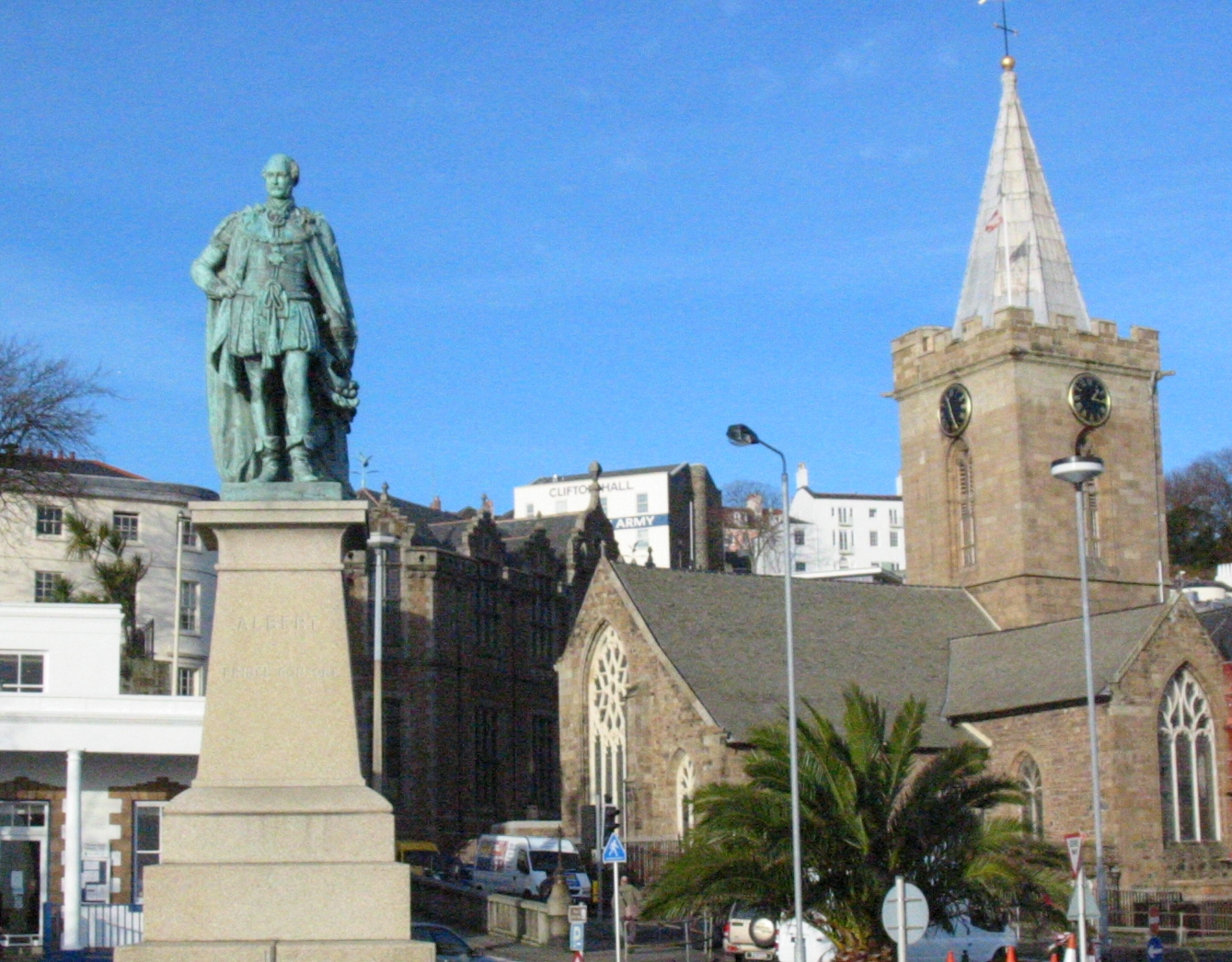 Saint Peter Port, Guernsey